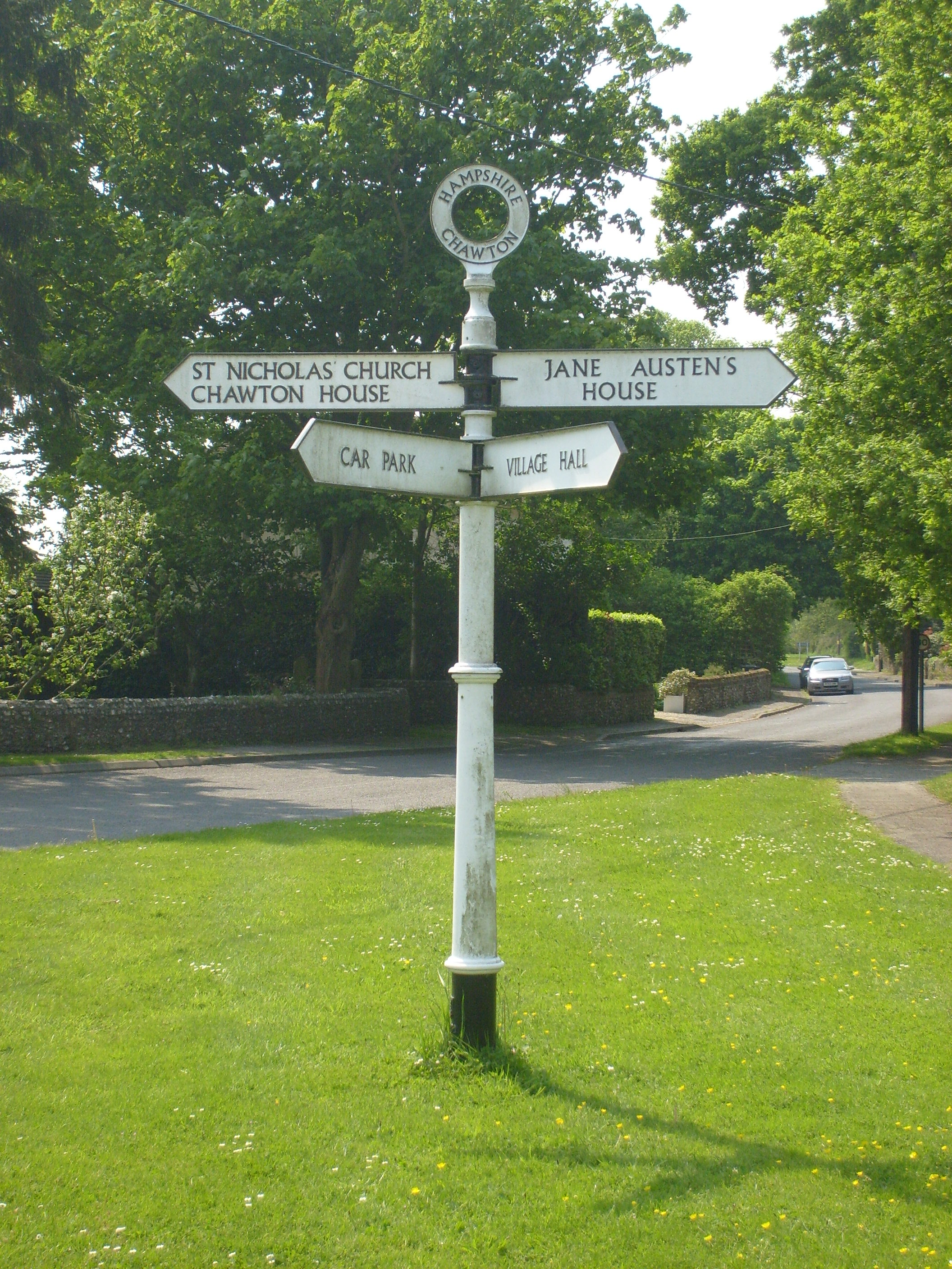 A Fingerpost at Chawton, Hampshire, England.